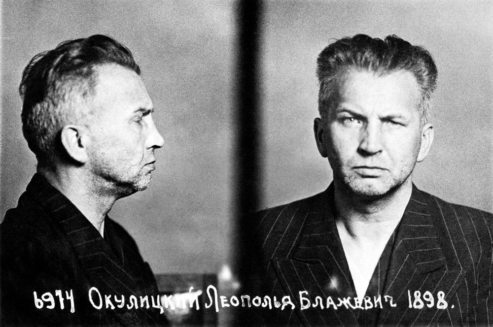 Leopold Okulicki (1898-1946) General of the Polish Army and the last commander of the anti-German underground Home Army during World War II. He was murdered after the war by the Soviet NKVD.